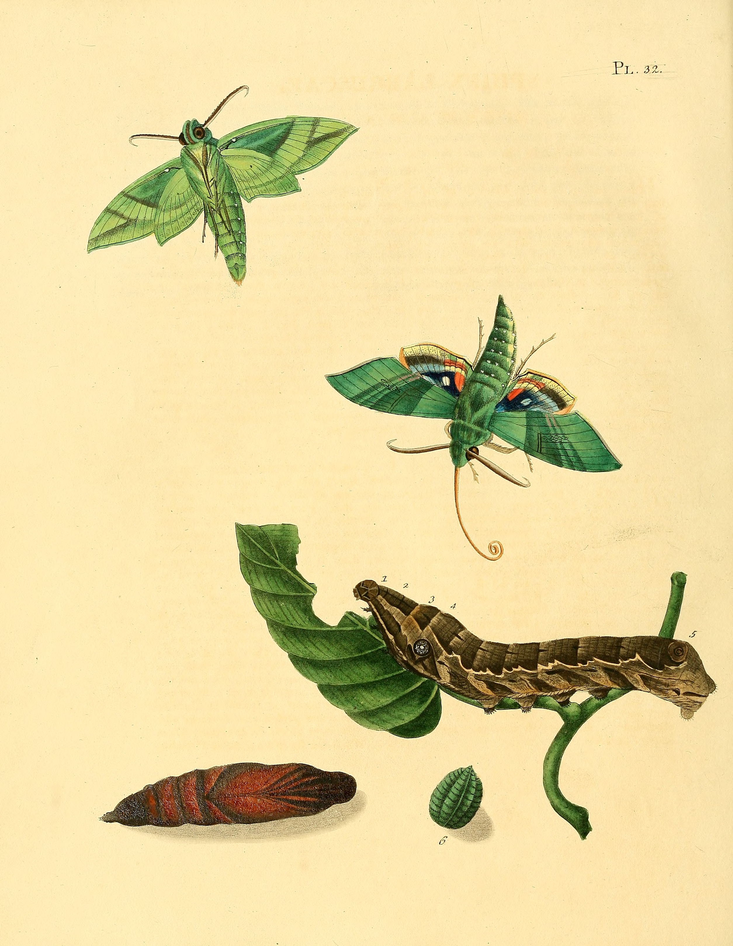 Illustration of: Eumorpha labruscae (as syn. Sphinx labruscae)